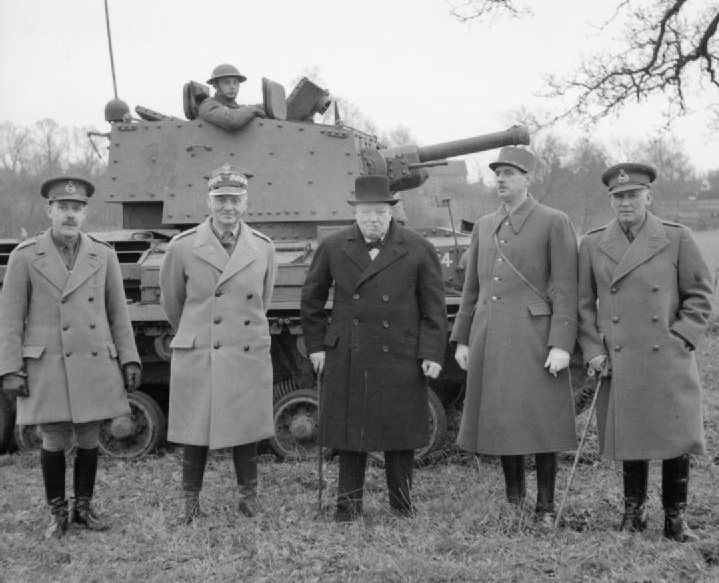 Winston Churchill with General Władysław Sikorski, Prime Minister of the Polish Government-in-Exile and Commander-in-Chief of the Polish Armed Forces and General Charles de Gaulle, General Officer Commanding French Forces, following a Cruiser Mk IIA CS (A10) tank demonstration.